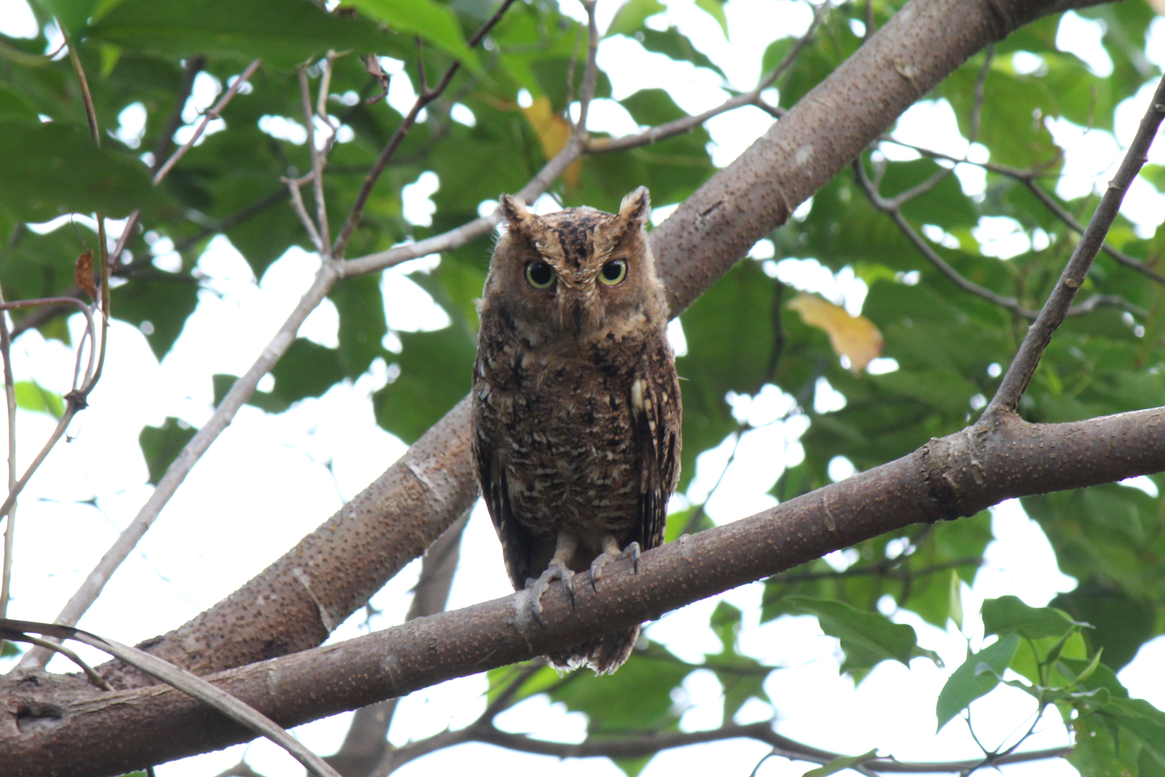 Immature of Sulawesi Scops Owl (Otus manadensis) at Mount Masarang, Tomohon, North Sulawesi